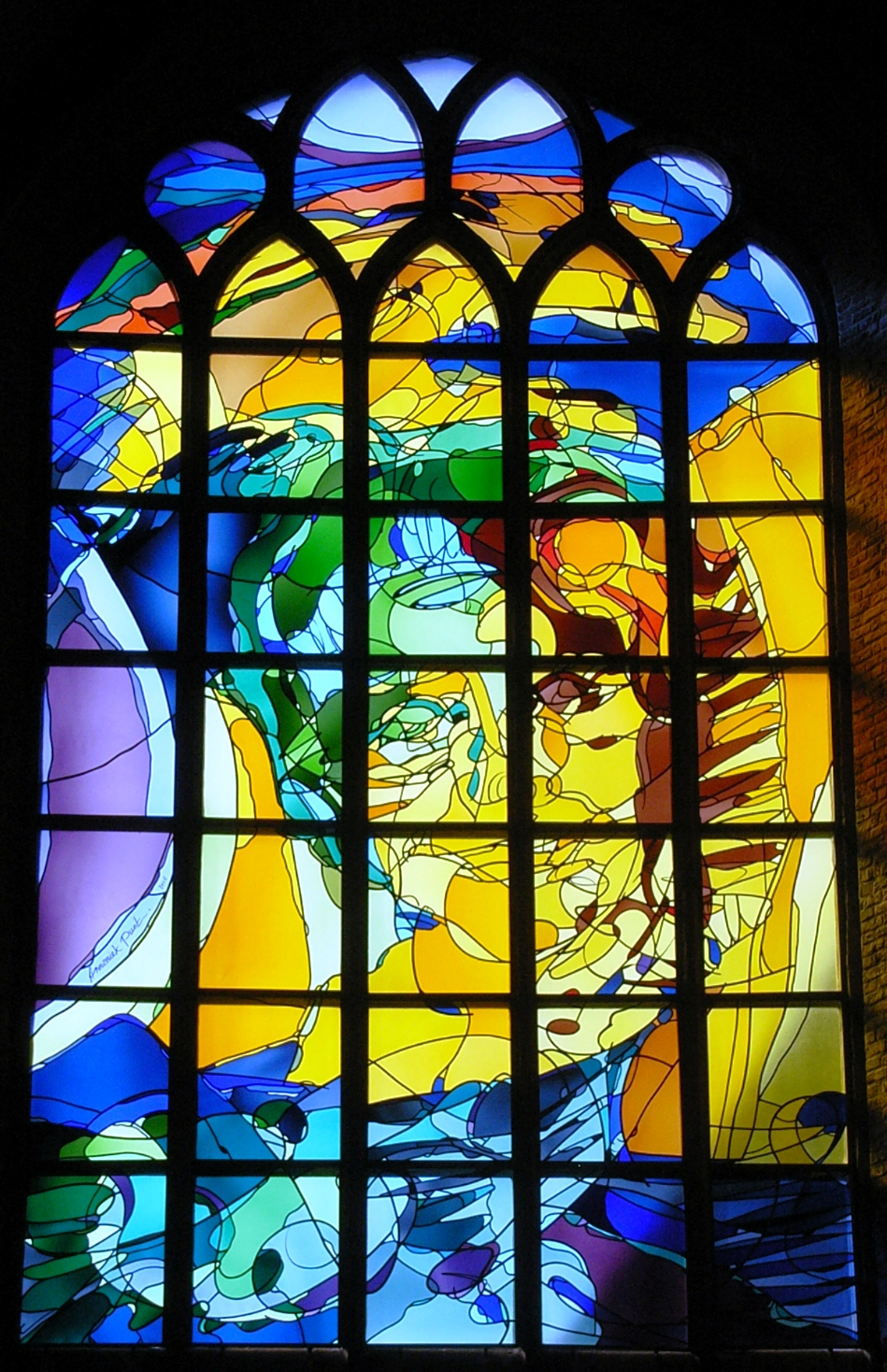 Nieuwe Kerk in Delft, Netherlands. Stained glass window in the south aisle "Jairus' daughter" created 2006 by dutch artist Annemiek Punt.